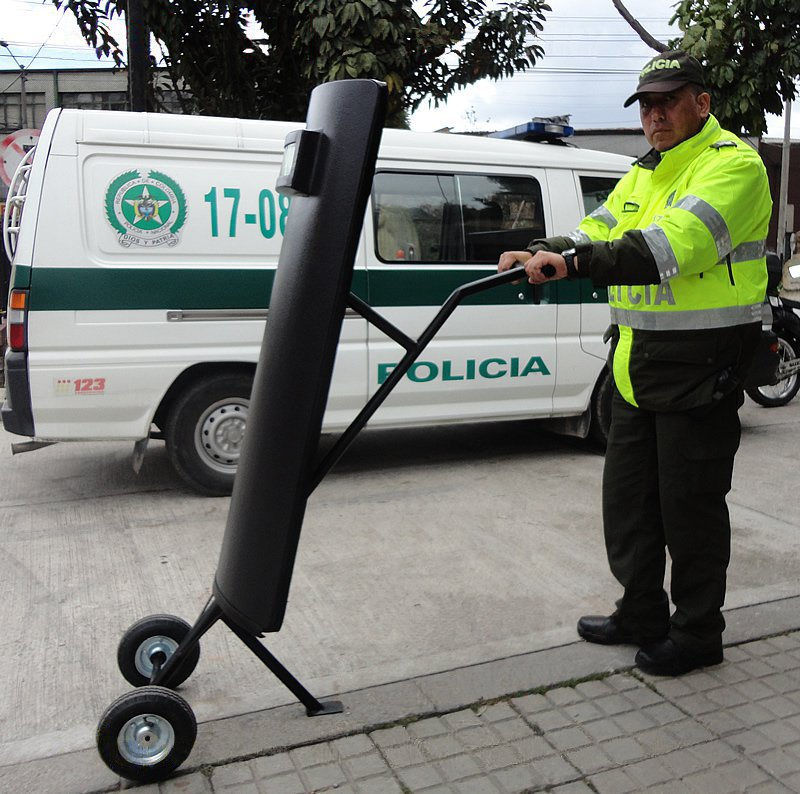 Rifle protected police shield. Stops 7.62 and 5.56 ball. Made from light ceramics and Twaron